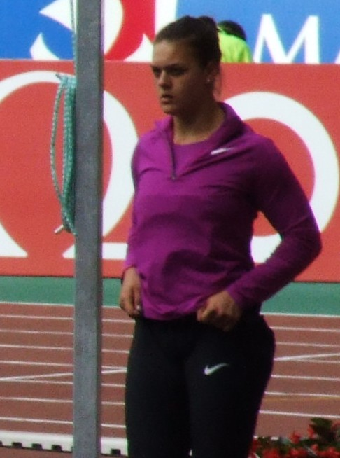 Croatian discus thrower Sandra Perkovic during the 2010 Meeting Areva, the ninth stage of the 2010 Diamond League in Saint-Denis, Paris.